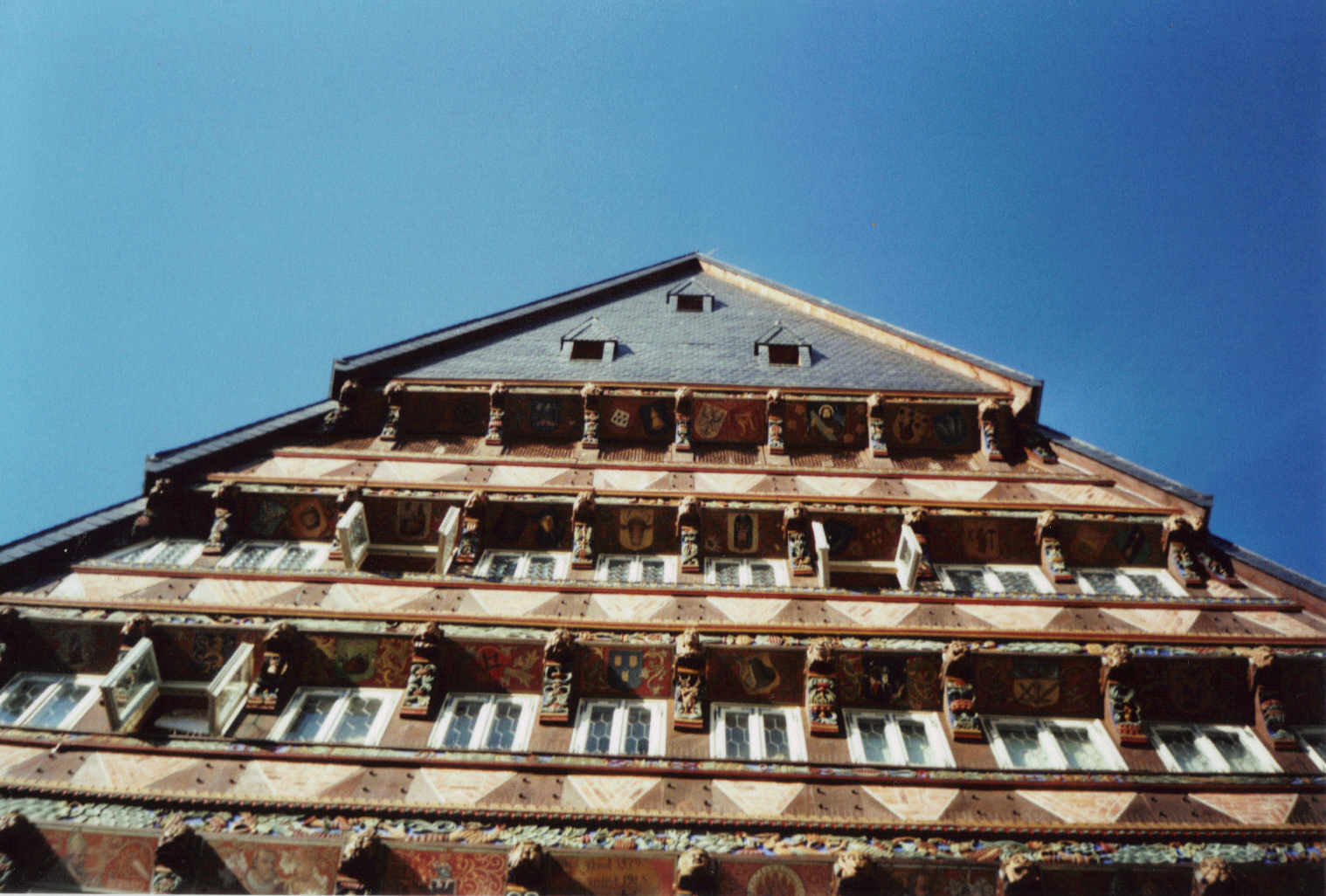 Butchers' Guildhall